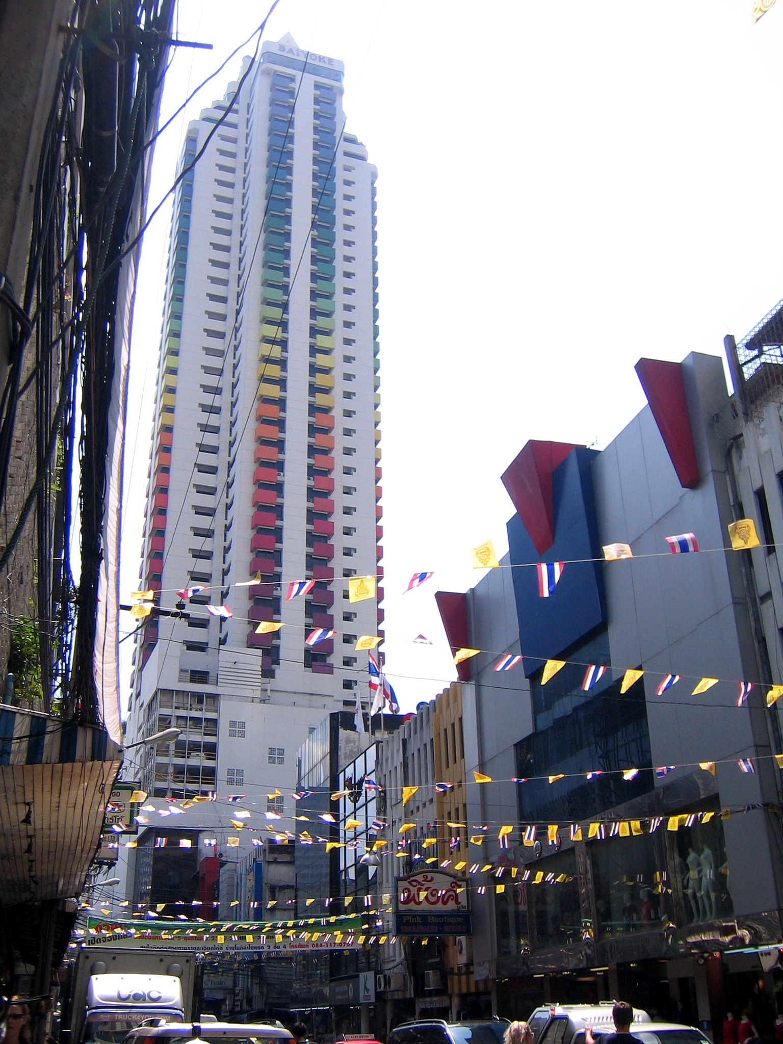 Baiyoke Tower I in Pratunam, Ratchathewi District, Bangkok, Thailand, was built in 1987. Its height is 151 m. It was the first of two adjacent towers - the other being the 304 m high Baiyoke Tower II (built in 1997).